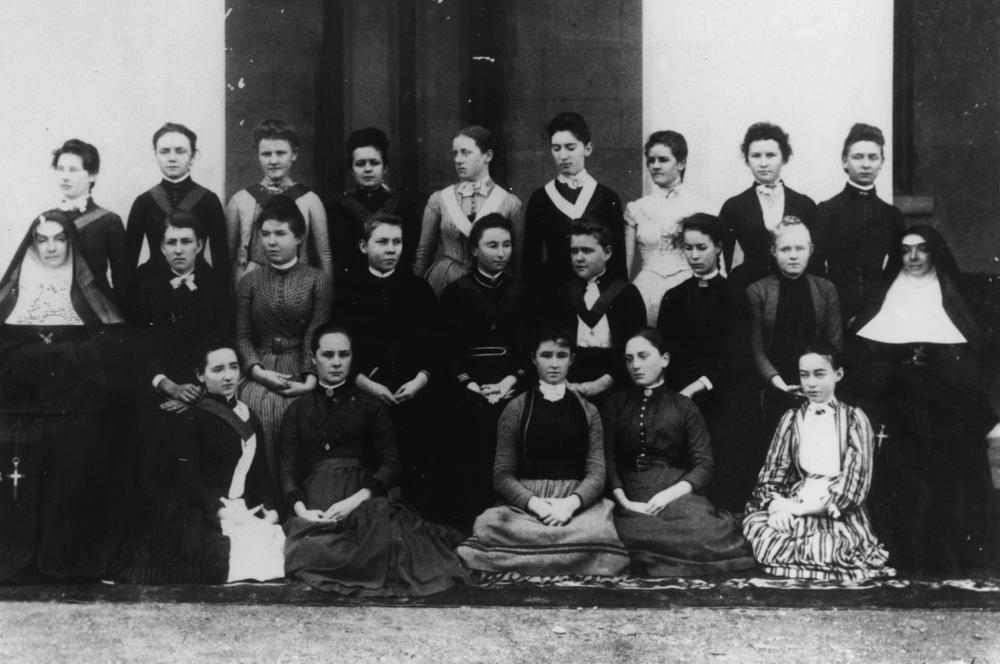 Female students and nuns posing for a portrait at All Hallows' Convent School, Brisbane, around 1890.